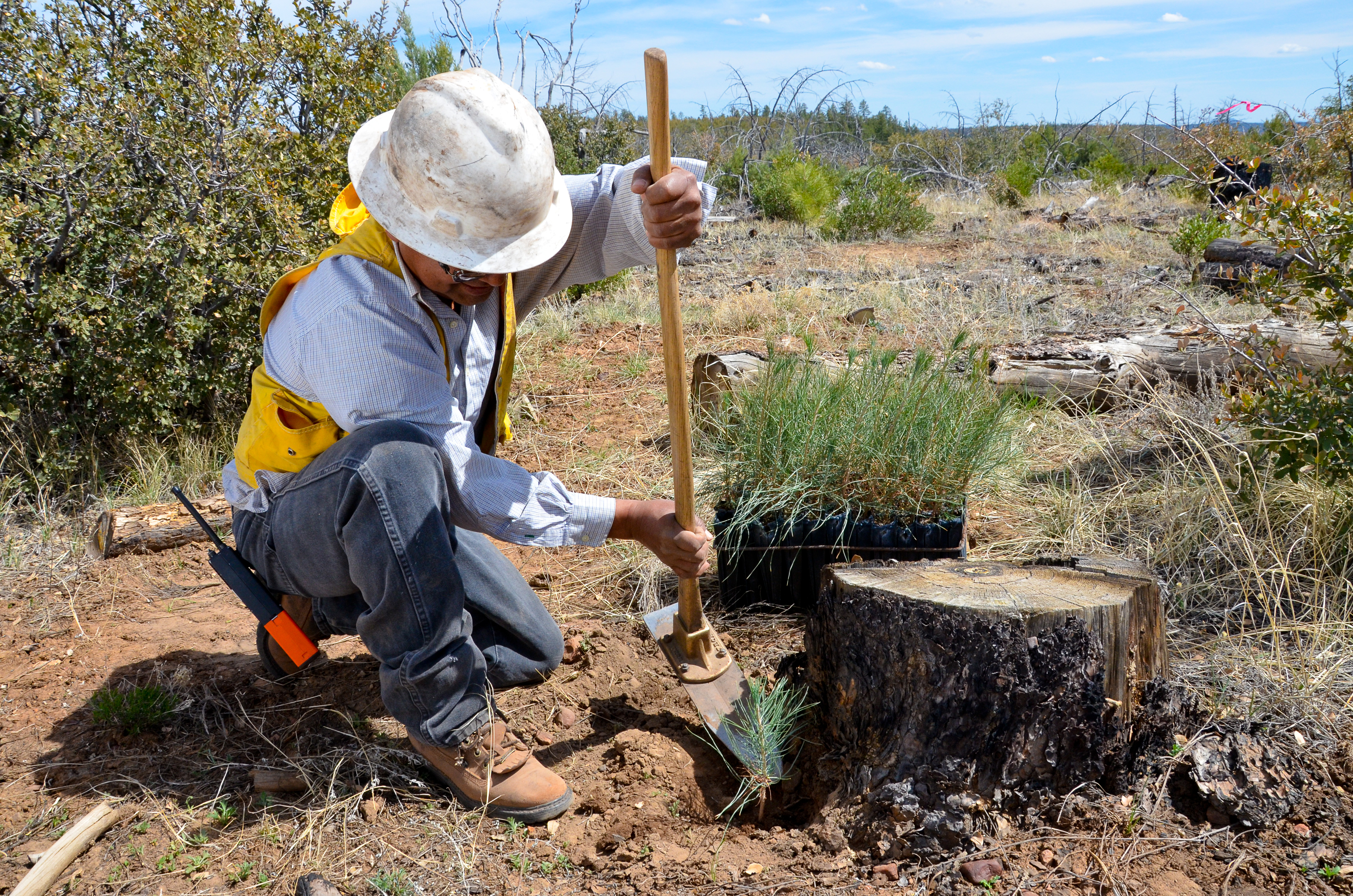 Mack Nosie, with the White Mountain Apache Tribe forestry department, uses a hoedad to dig a hole for a ponderosa pine seedling in the shade of a burned tree stump, which protects the seedling from windy conditions that dry the trees. Photo by Beverly Moseley, NRCS.